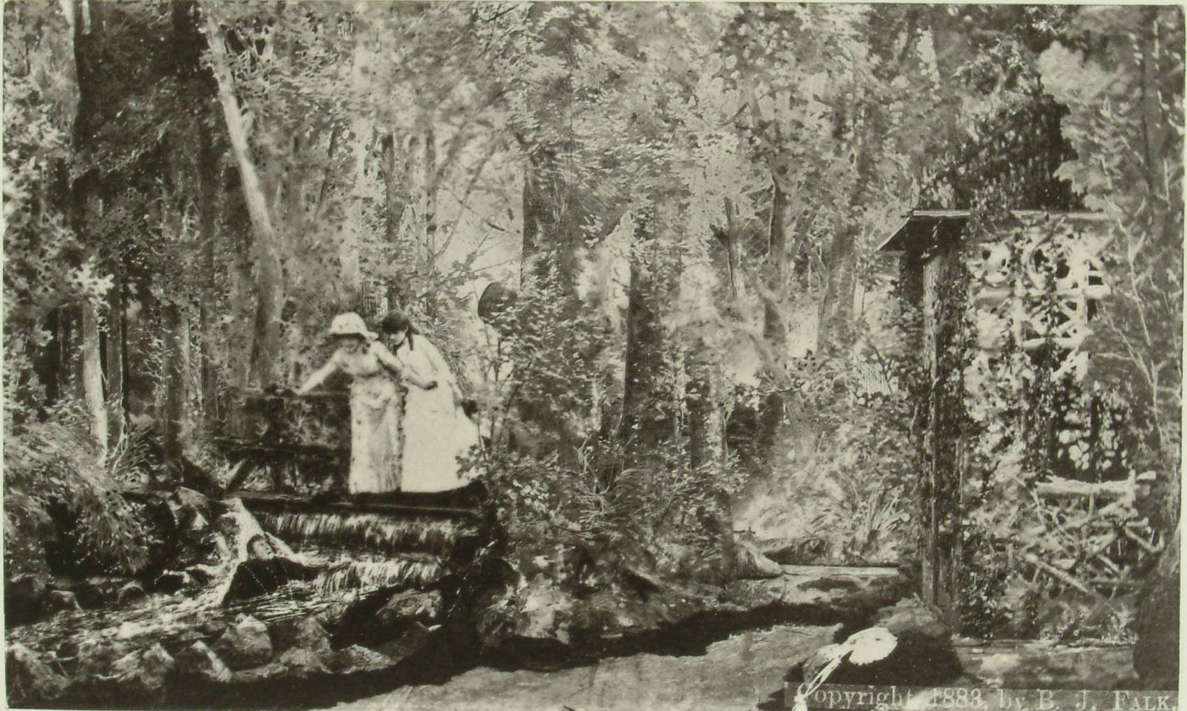 Photograph by Benjamin J. Falk of Broadway performance of The Rajah in 1883, Plate VI. Part of a souvenir for the 100th performance of the play on September 11, 1883.